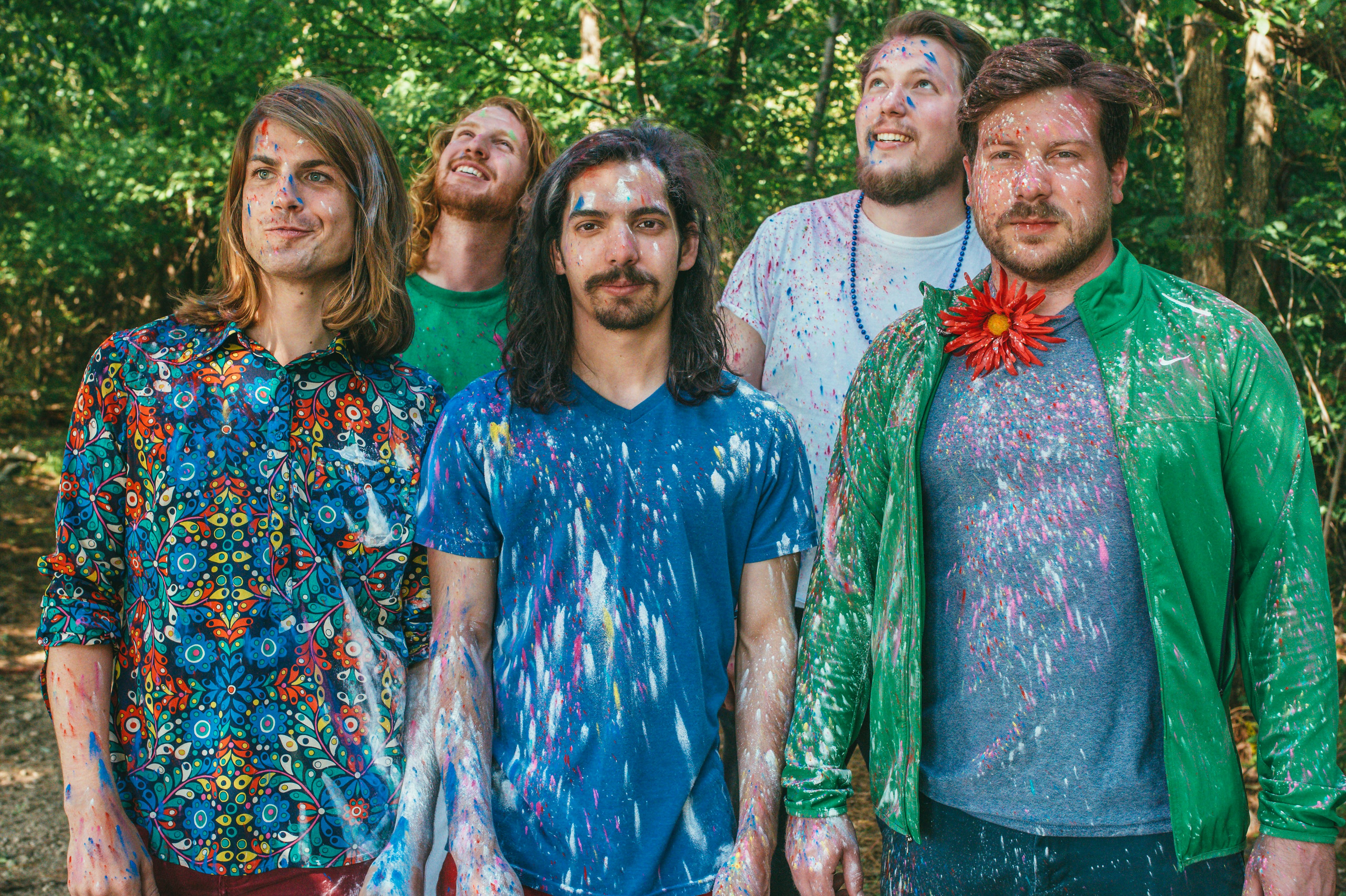 From the "Parachute" music video shoot